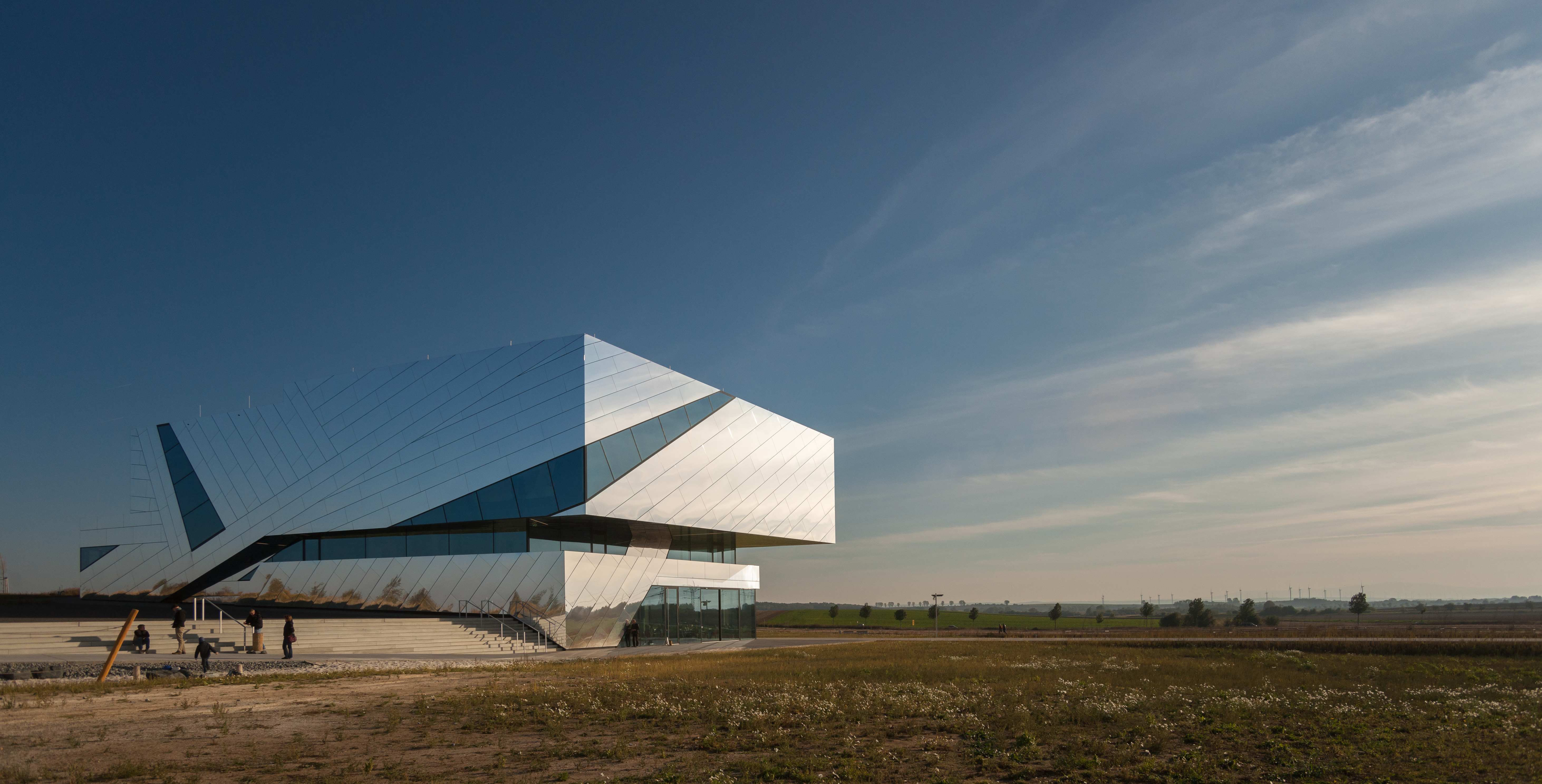 Paläon Research and Experience Center, Schöningen/Germany.